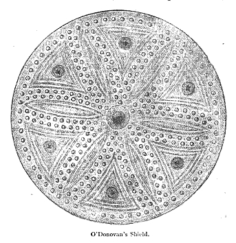 Medieval shield belonging to the Lord of Clancahill, Donal O'Donovan. Probably 16th century. Diameter 19.5 inches.